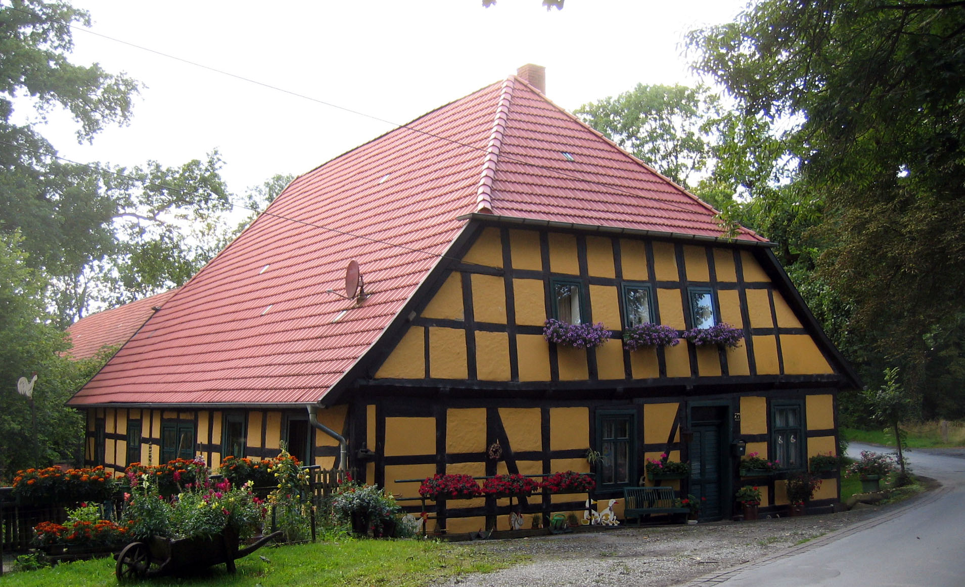 Picture shows a old timber framed house that is affiliated with Gut Böckel near Rödinghausen-Bieren, Germany.